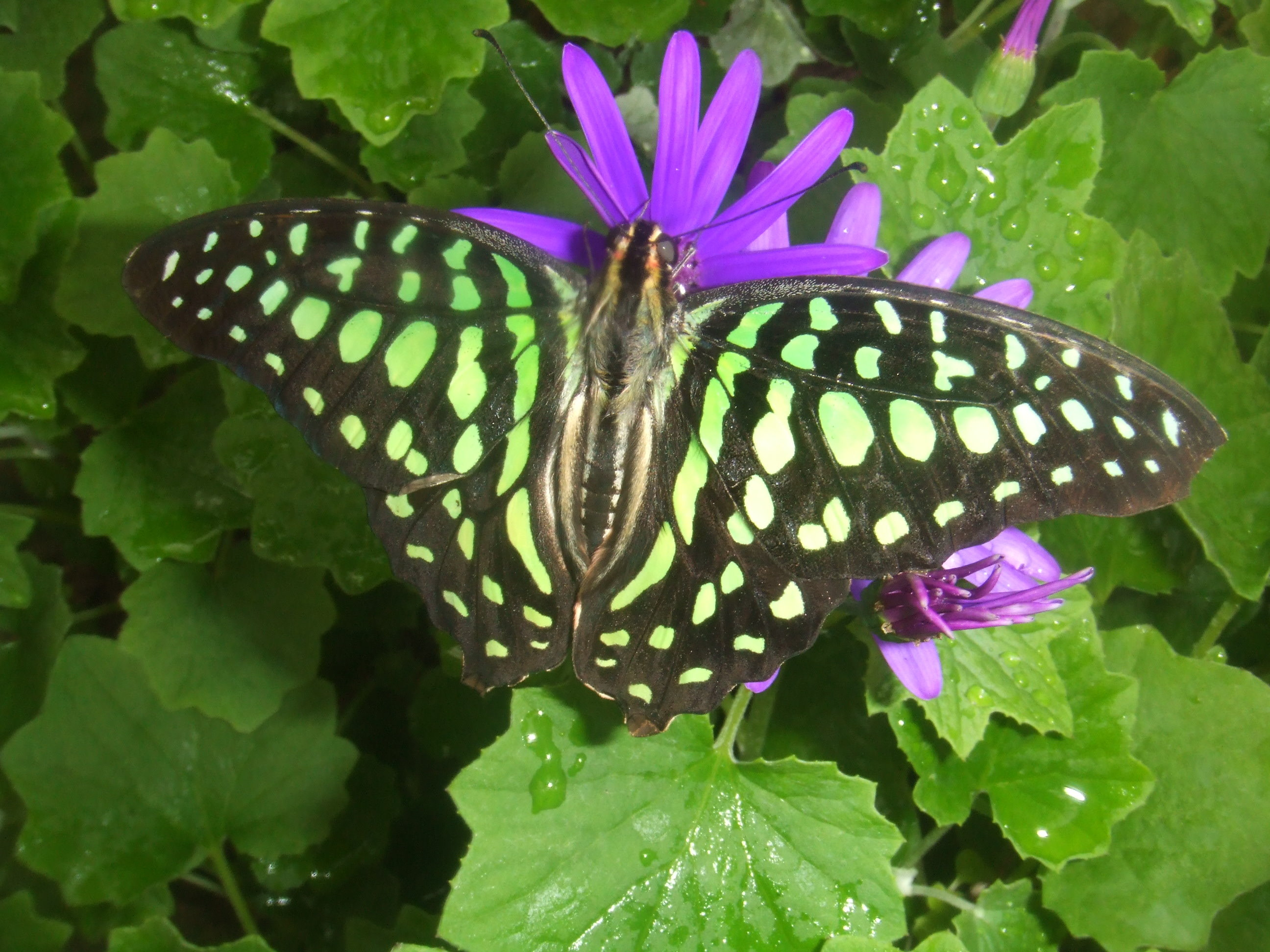 Graphium agamemnon, picture taken at the Passiflorahoeve in Harskamp, The Netherlands